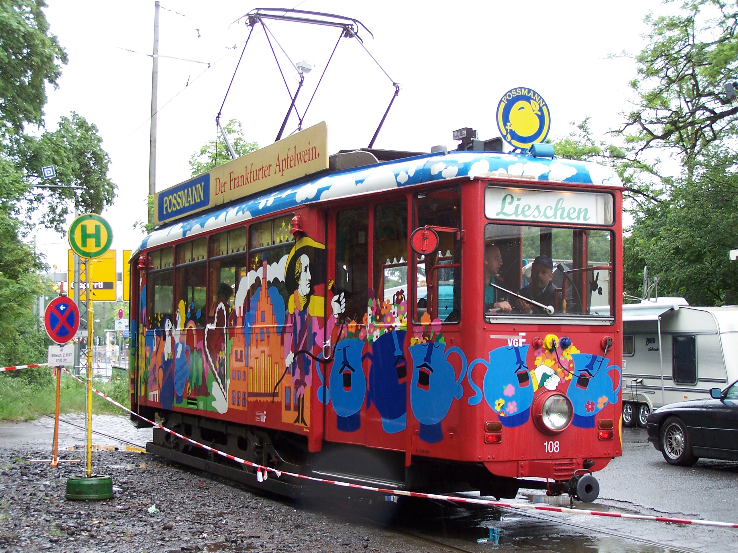 Tram K-Type 108, line „Lieschen“ at stop Oberforsthaus, May 2007